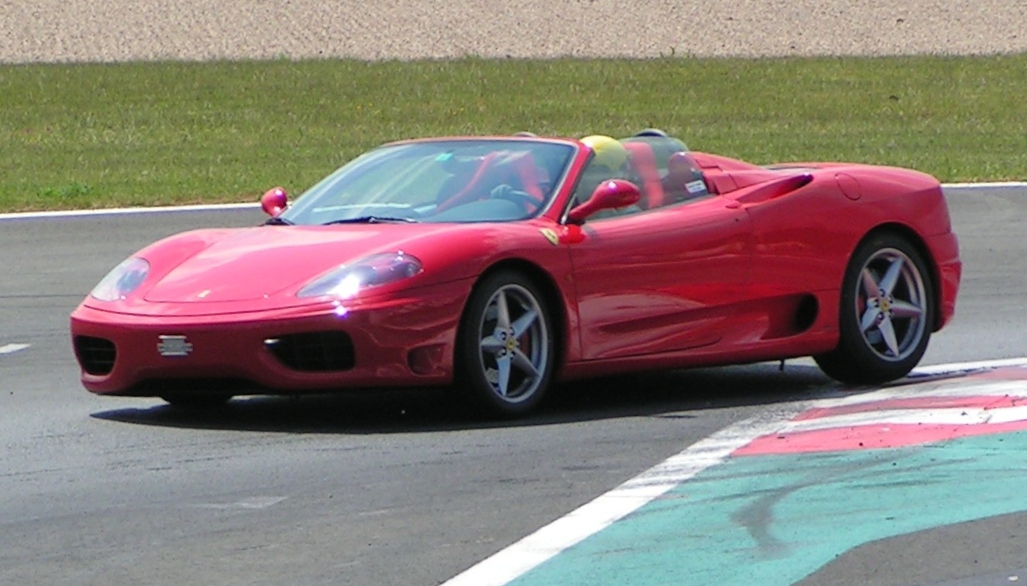 Ferrari 360 Spider in last chicane at Magny-Cours racetrack